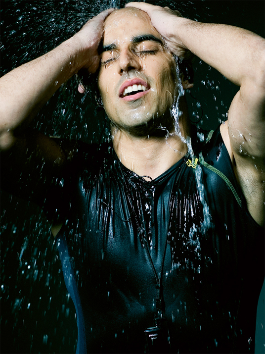 Umar Khan posing for "Friskispressen magazine"